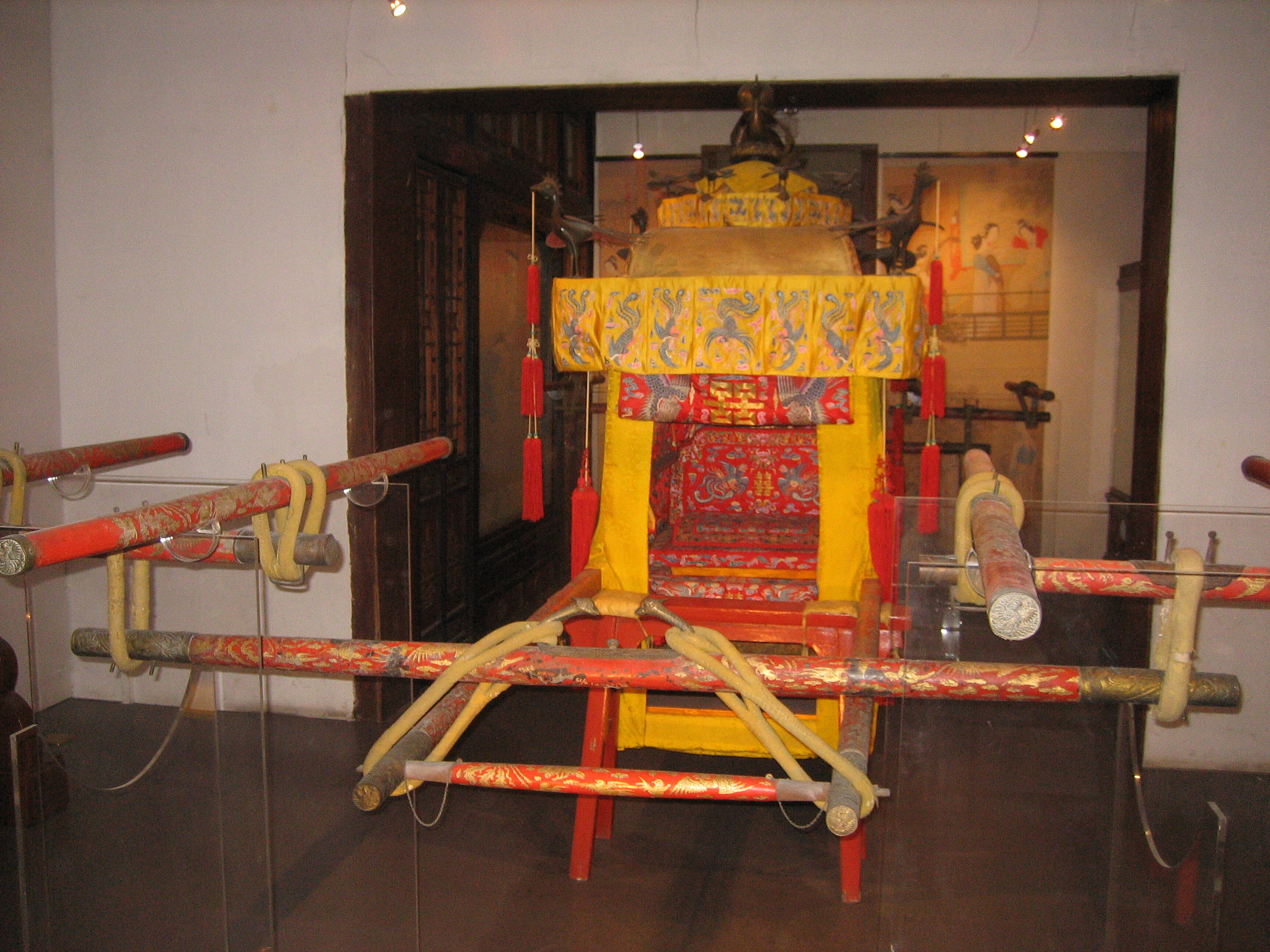 Art collection in the Forbidden City, Beijing 永寿宫“清代妃嫔生活展”